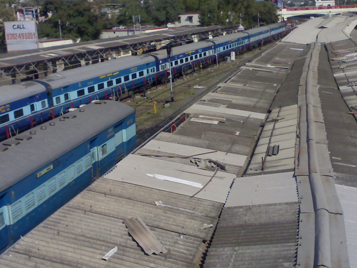 Indore Locomotive Shed